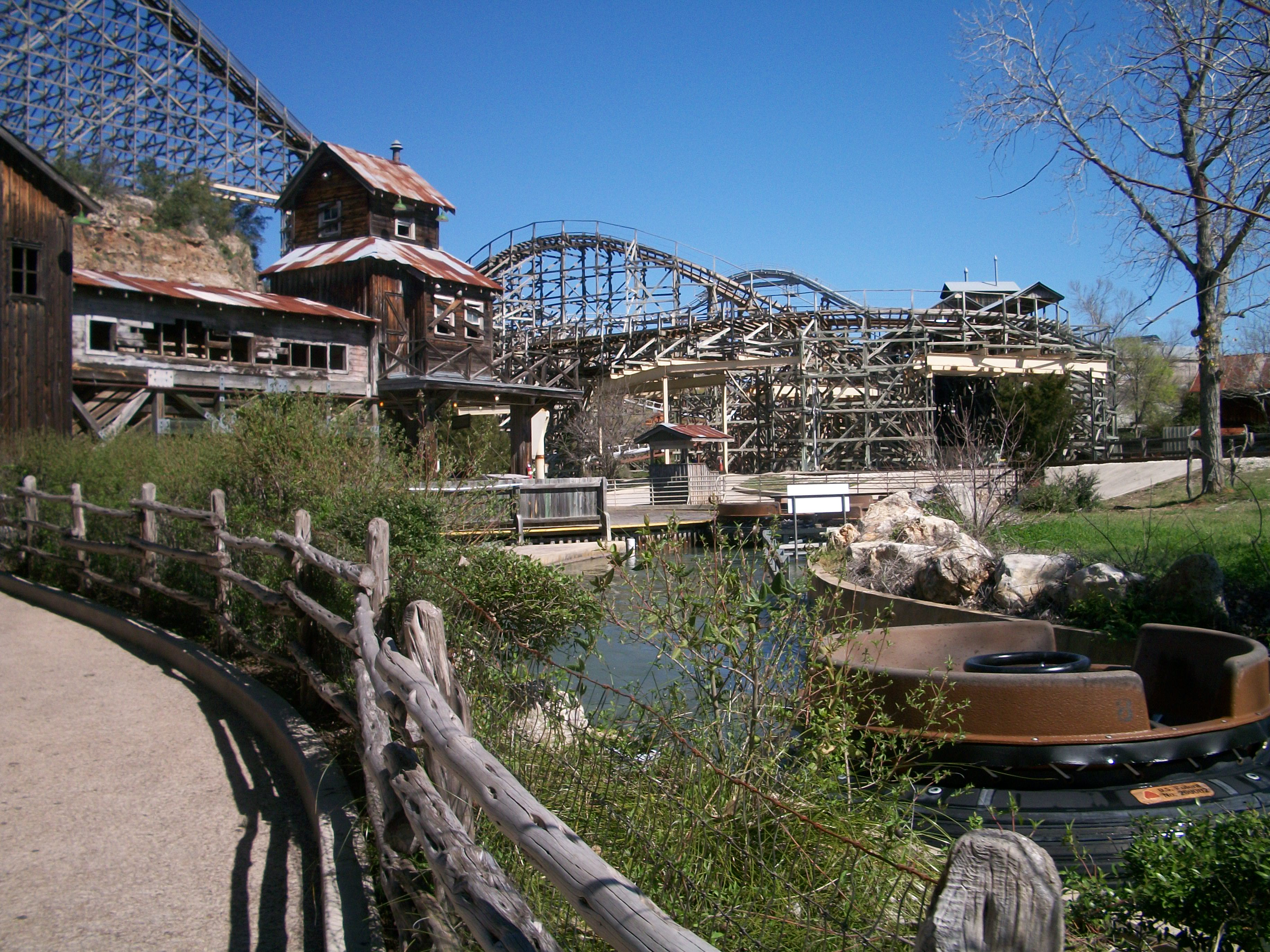 The Gully Washer station at Six Flags Fiesta Texas that opened in 1992, when Fiesta Texas was first built! Picture taken March 3, 2012.